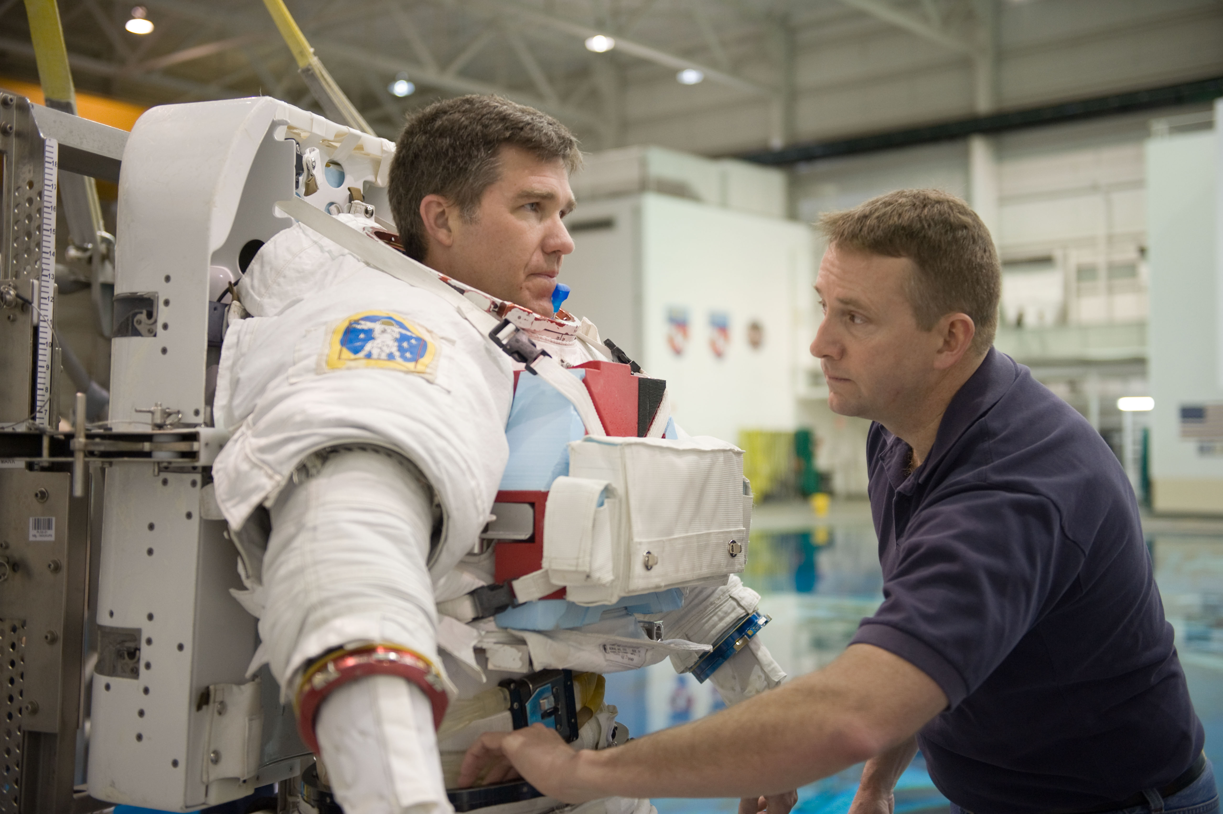 NASA astronaut Steve Bowen, STS-132 mission specialist, dons a training version of his Extravehicular Mobility Unit (EMU) spacesuit in preparation for a spacewalk training session in the waters of the Neutral Buoyancy Laboratory (NBL) near NASA's Johnson Space Center. Astronaut Ken Ham, commander, assisted Bowen.